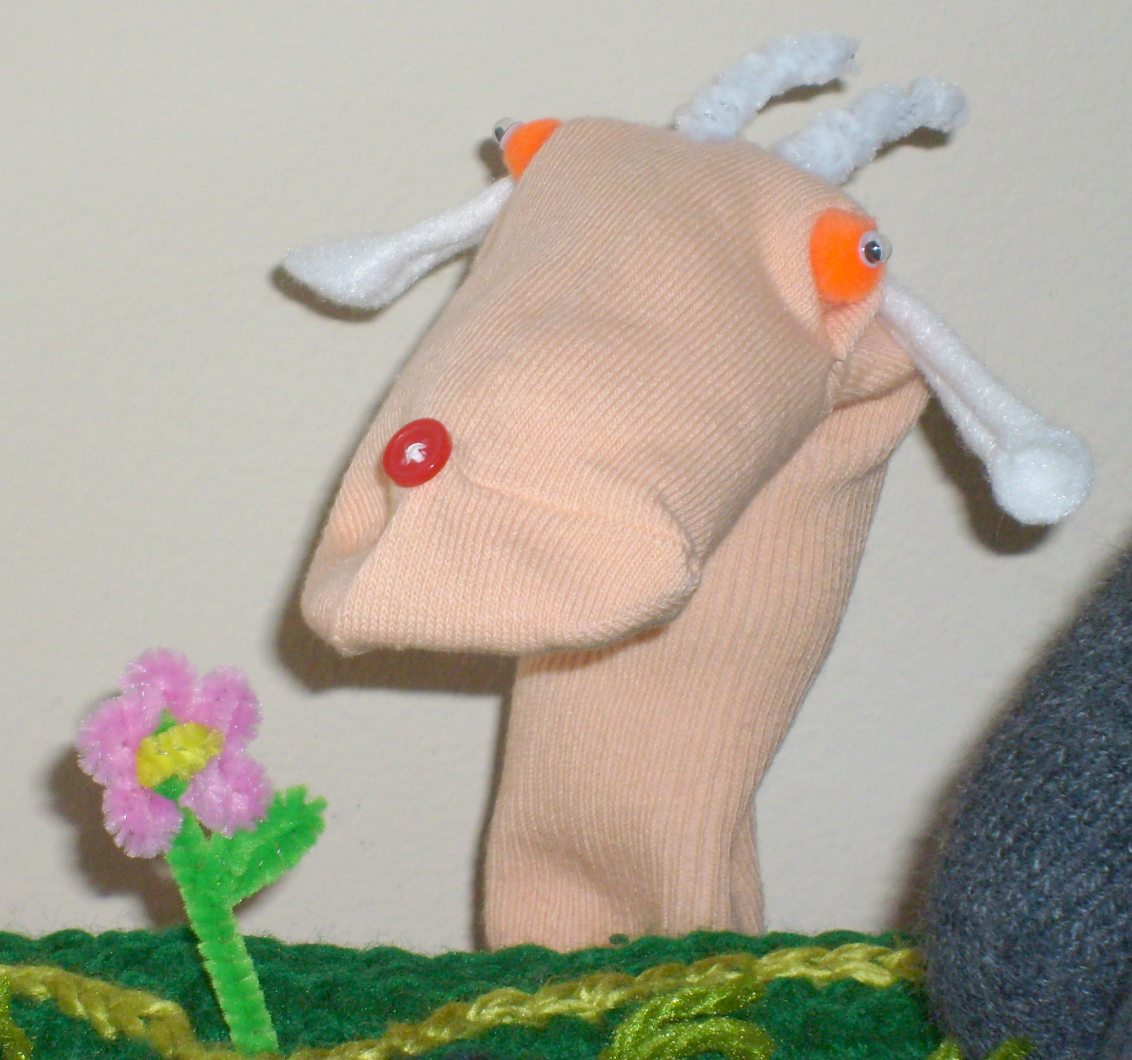 Billy the Kid: sockpuppet for the Three Billy Goats Gruff.